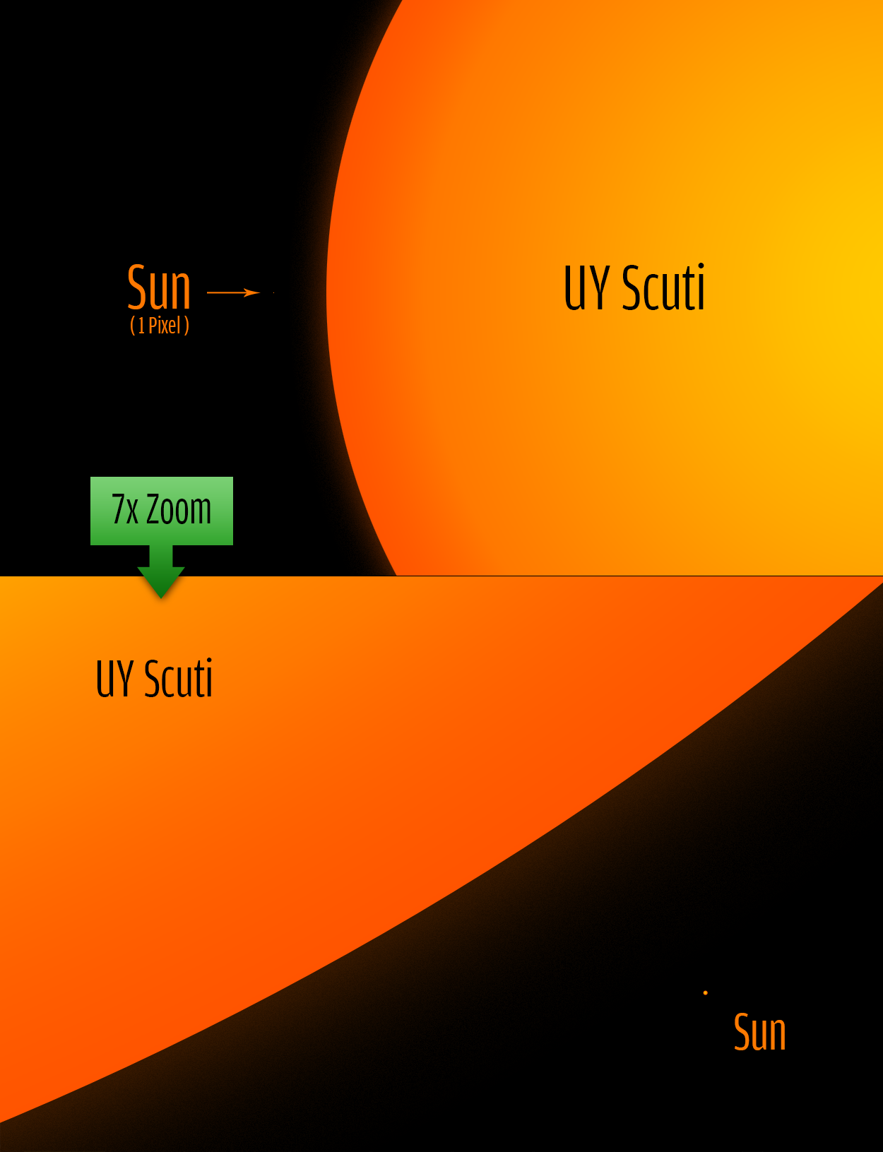 Approximate size of the star UY Scuti compared to the sun.